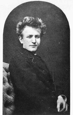 Charles Bernhoeft Charles Bernhoeft (1859-1933), photographe de la cour Grand-Ducale, around 1879.